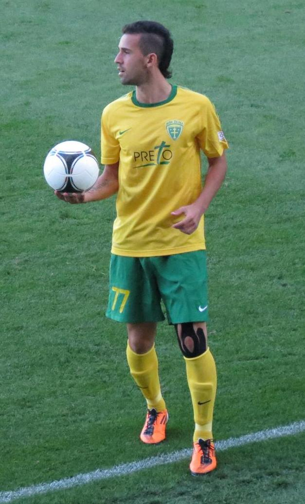 This is a photo of Portuguese-South African football player